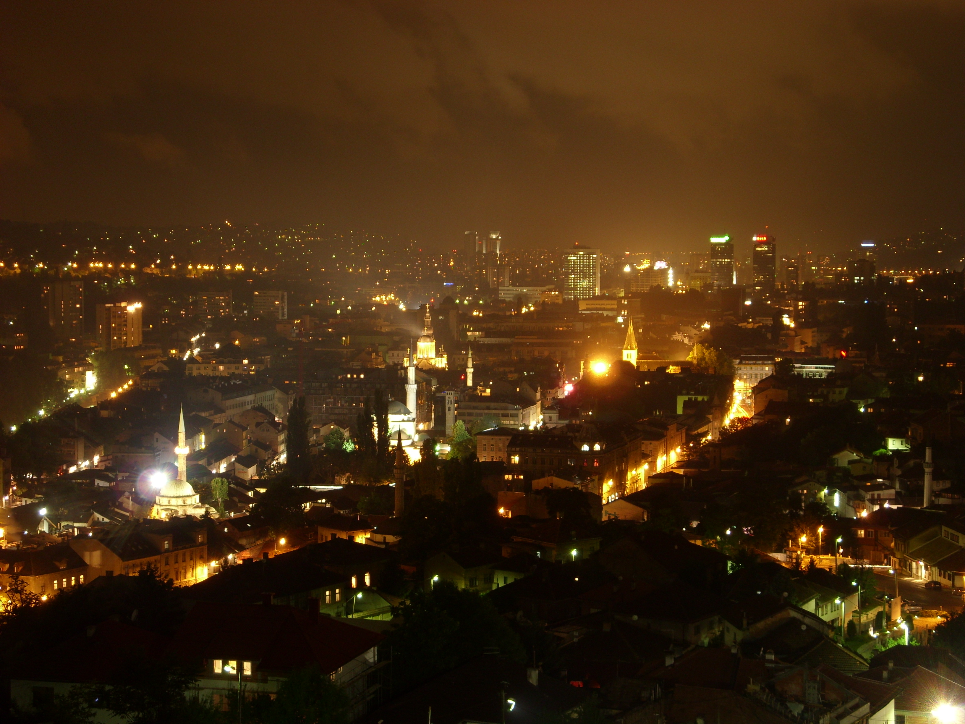 Bosnian capital city Sarajevo at night. Hornjoserbsce: Nócna bosniska stolica Sarajevo.